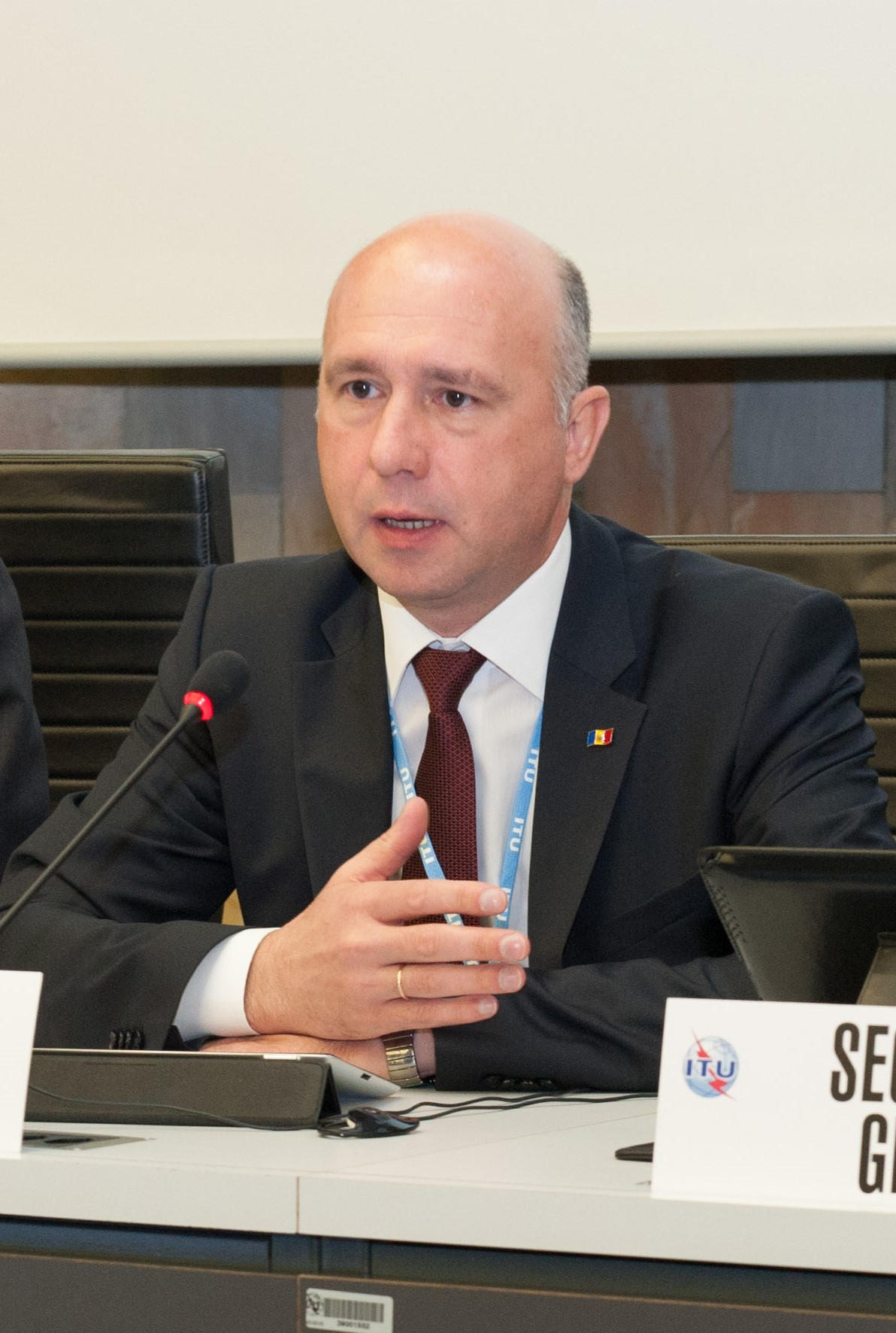 Pavel Filip, Minister of Information Technology and Communications, Republic of Moldova speaking at the Telecommunication Development Advisory Group meeting.